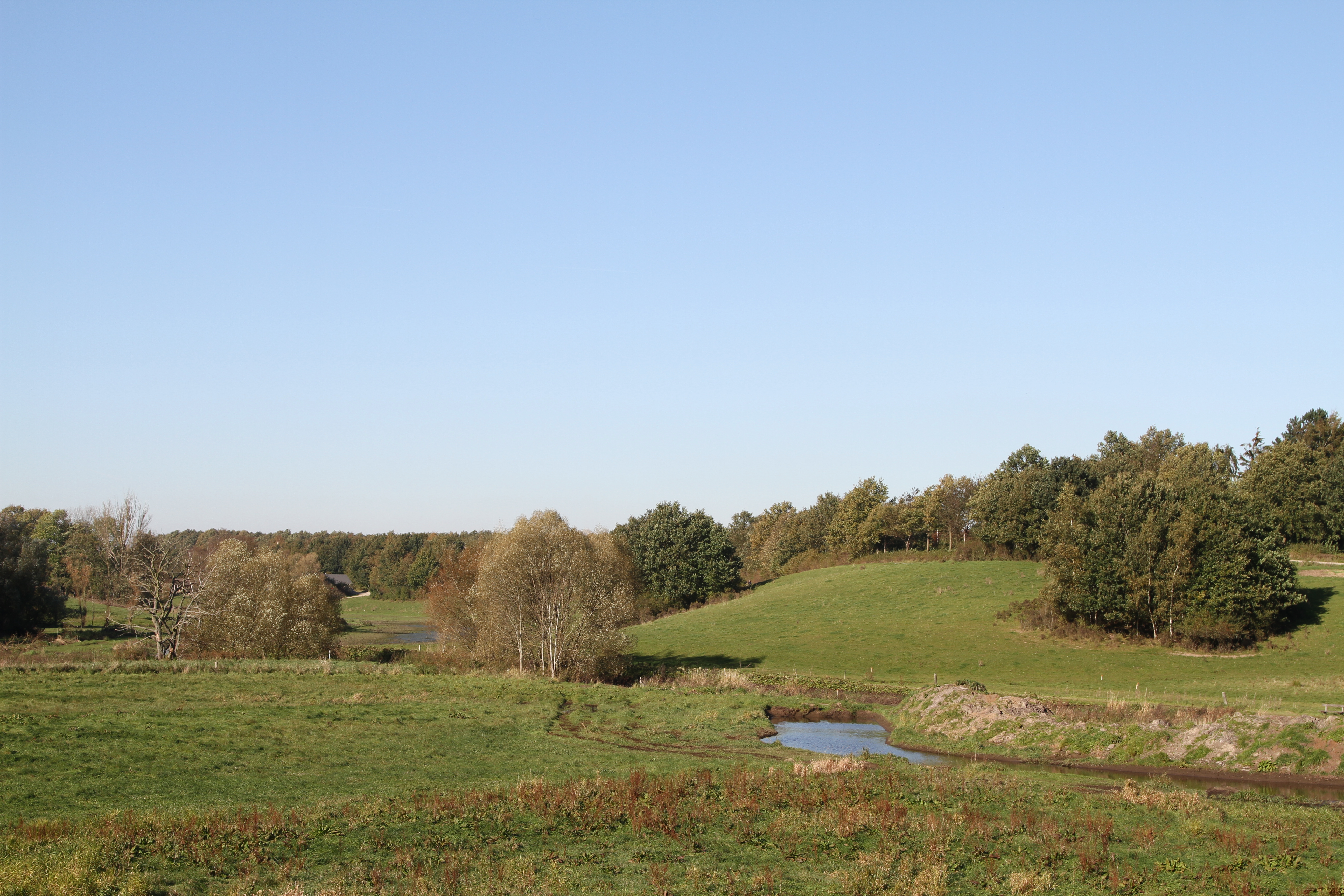 Stavids/Stavis River in Odense, Denmark, on an autumn day while it was being "re-winded".